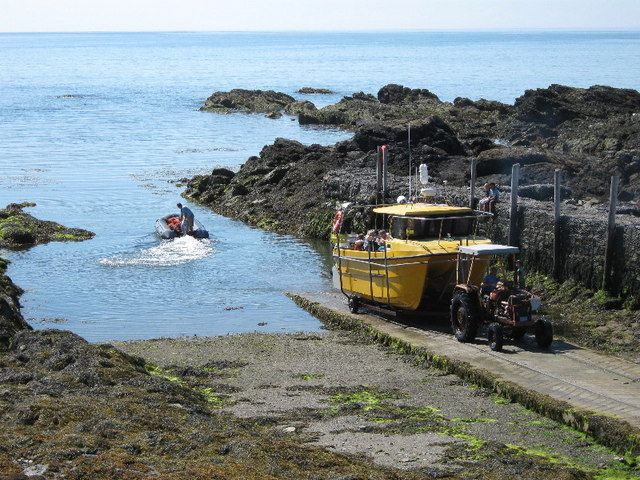 The easy way to disembark The yellow boat is one of the regular ferries to Bardsey. When the tide is low the boat cannot moor against the jetty wall for the passengers to step off. The solution, it seems, is to manoeuvre the boat onto a large launching trolley which is then towed up to the boathouse by tractor. The passengers can then disembark by ladder.